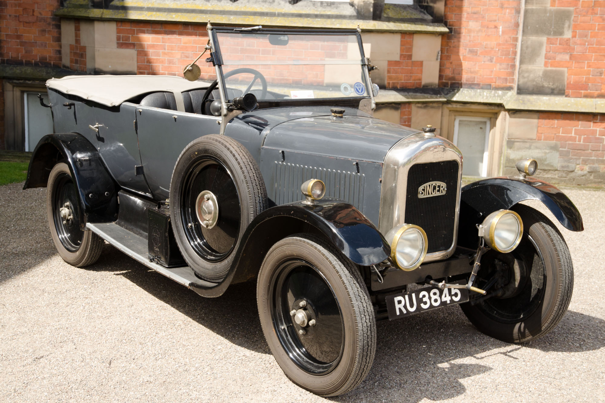 1926 Singer 10-26 Senior (DVLA) first registered 11 August 1926 Capesthorne Hall Classic Car Show 27/07/2014